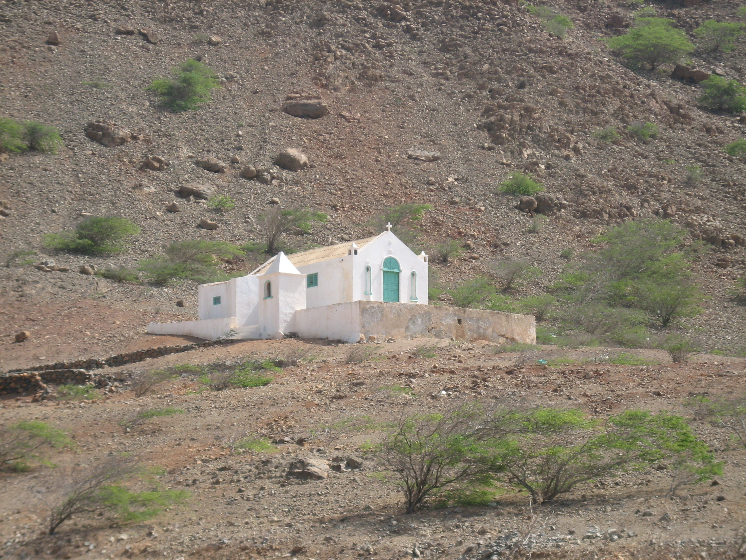 The church Igreja Nossa Senhora da Conceição of Povoação Velha in the south of Boa Vista, Cape Verde